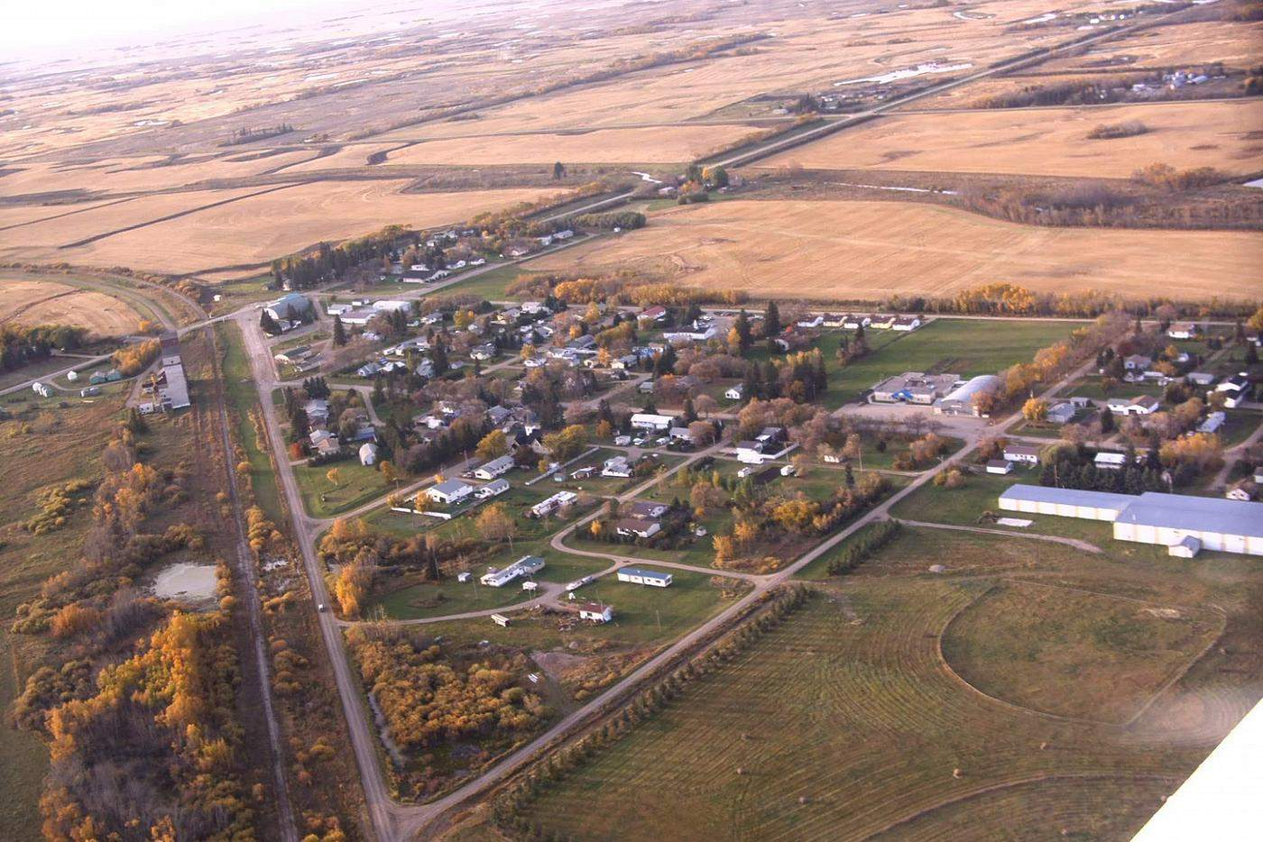 Arial View of Weldon Saskatchewan looking Northwest